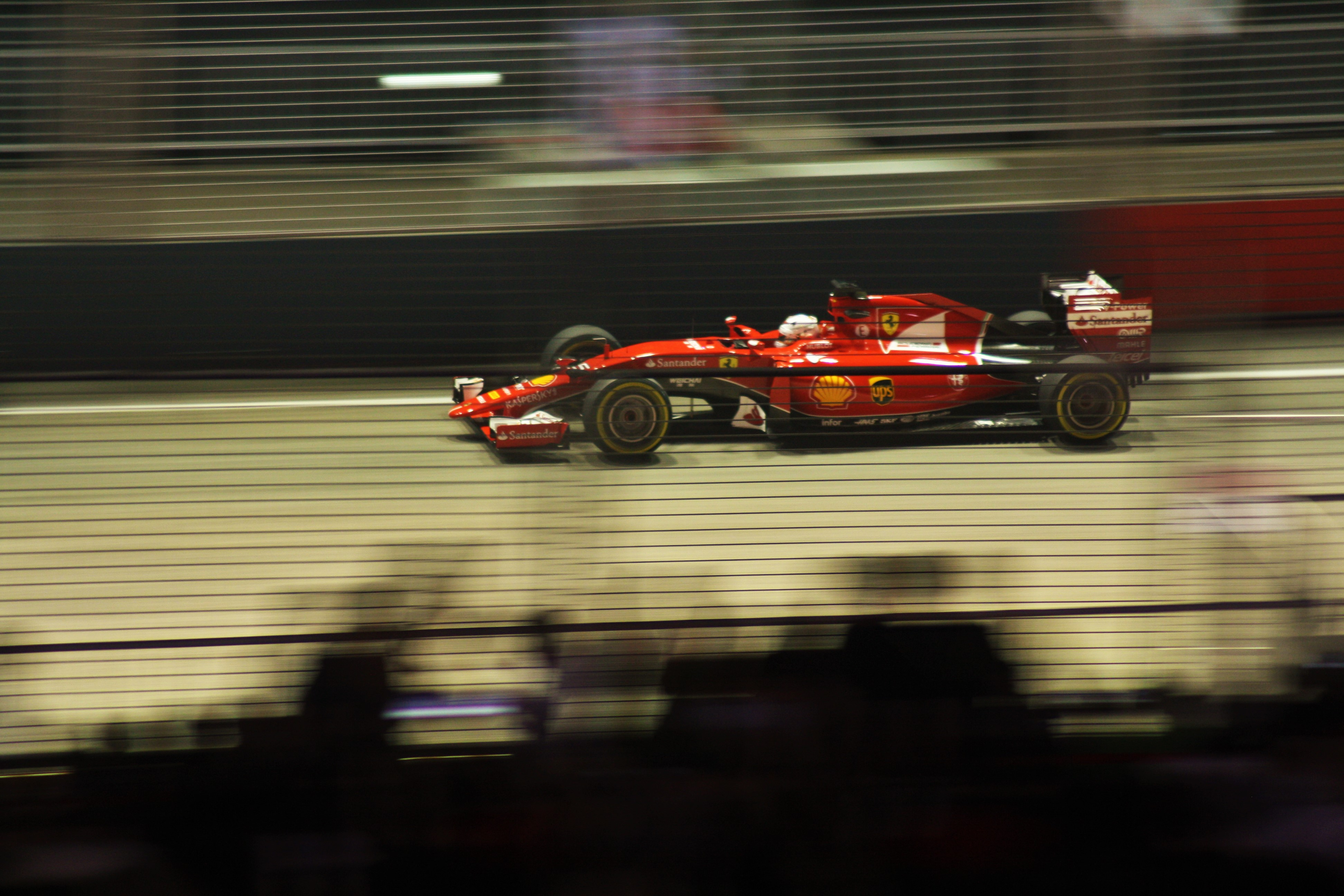 Sebastian Vettel at the 2015 Singapore Grand Prix